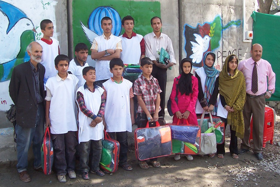 This photo was taken outside of HQ ISAF on World Peace Day Sep 2009, as a group of local art students in Kabul came to ISAF to make murals of their vision of world peace.